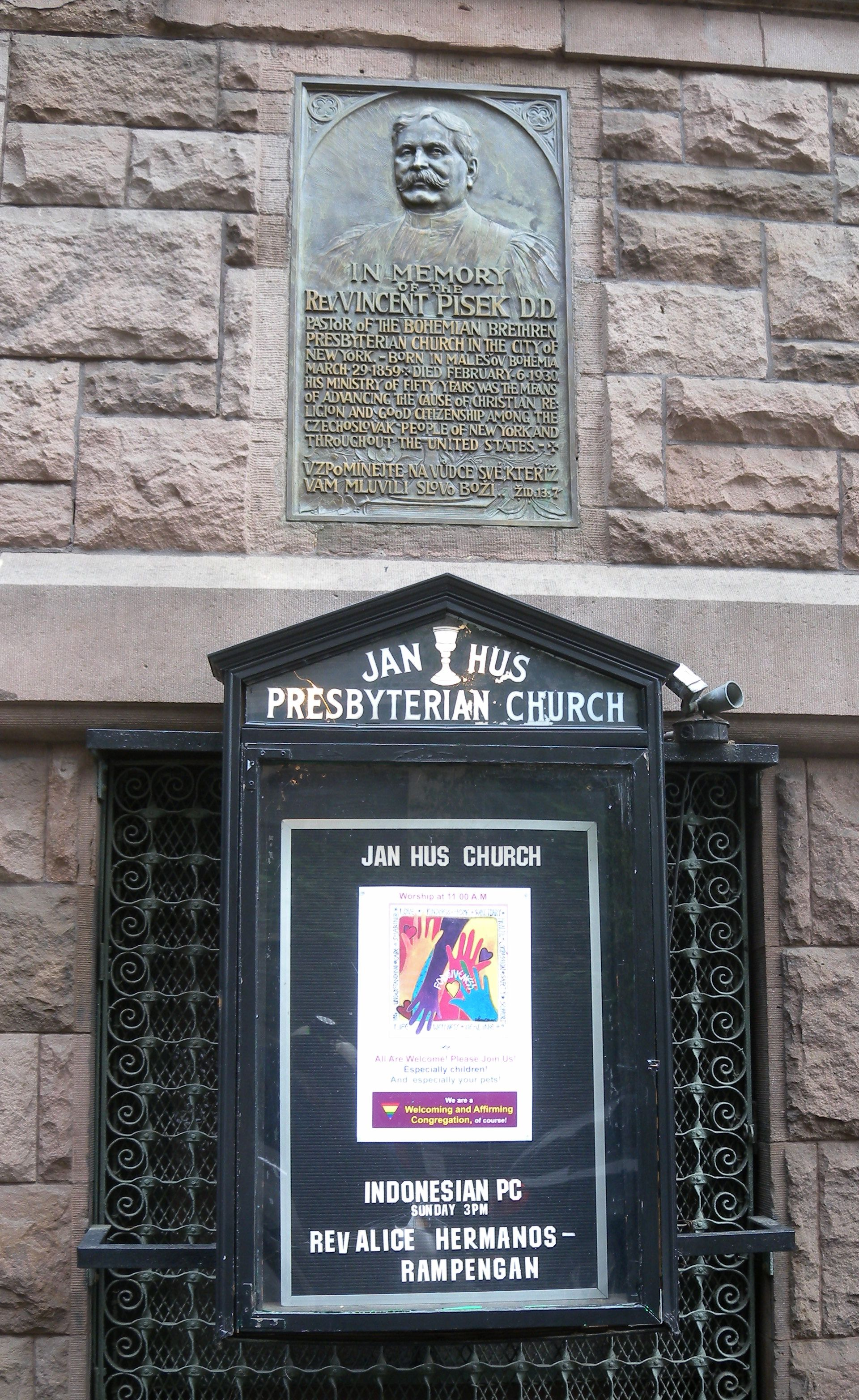 Looking north from sidewalk at a plaque on wall of File:Jan Hus Presb Ch 351 E74 jeh.jpg Jan Hus Presbyterian Church.